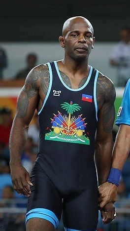 2016 Summer Olympics, Men's Freestile Wrestling 74 kg